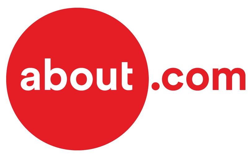 Logo for , an internet-based company.